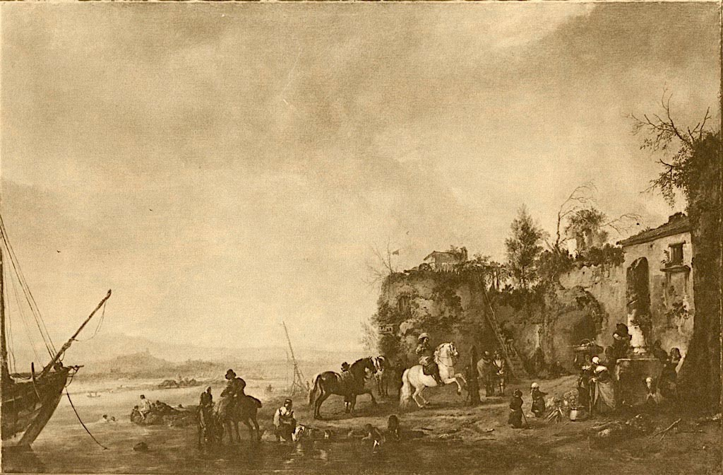 'Riding School on a Riverbank', by Philips Wouwerman (mid-17th century), a painting possibly destroyed in the Friedrichshain flak tower fire in Berlin, at the end of the Second World War (May 1945). The painting belonged to the collections of the Kaiser-Friedrich-Museum, now the Bode-Museum of Berlin.